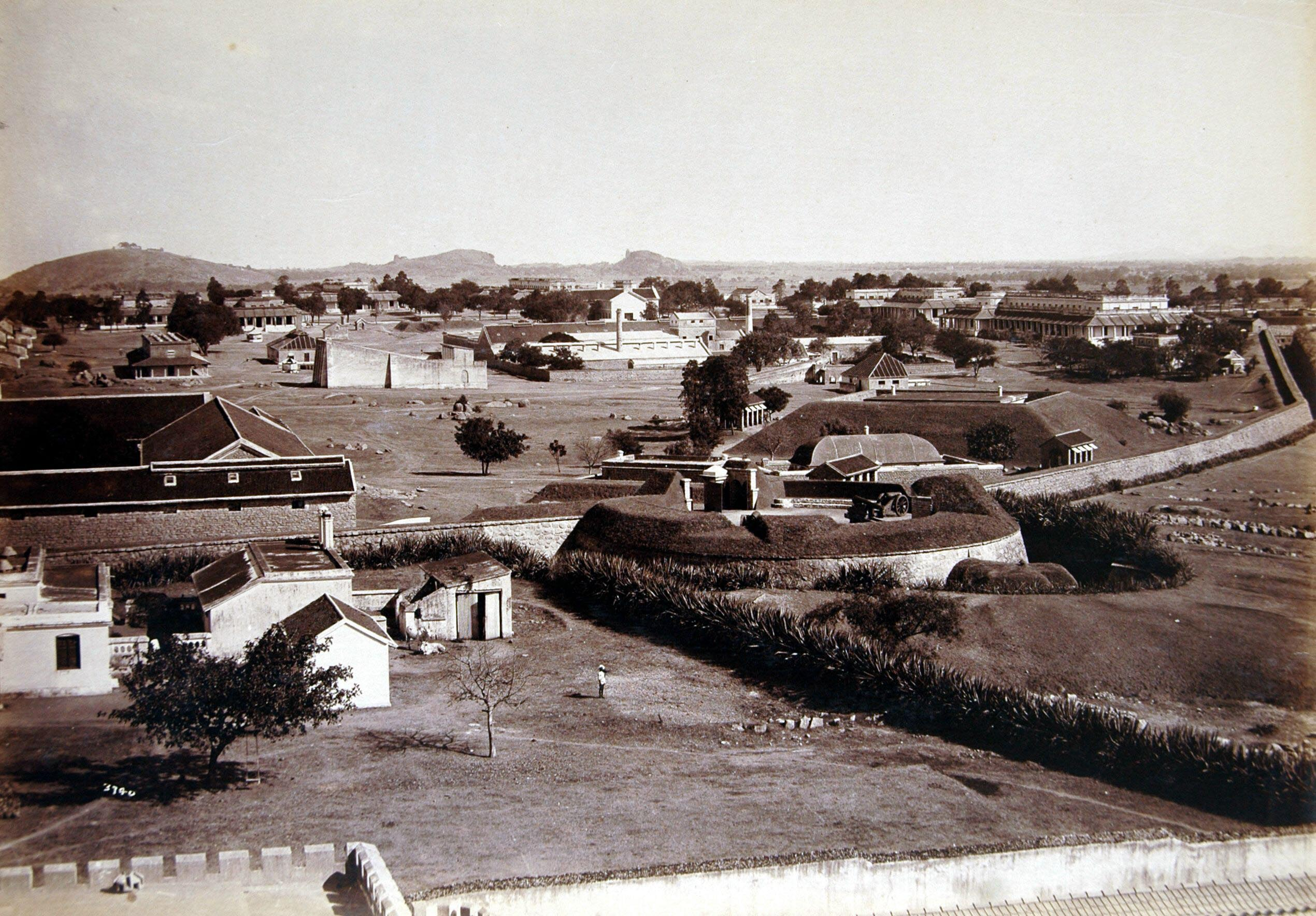 General view of buildings in the Trimulgherry (Tirumalagiri) entrenched camp near Secunderabad, photographed by Deen Dayal in the 1880s. Trimulgherry was one of a group of artillery cantonment situated in the area of Secunderabad. This photograph is from the Curzon Collection: 'Views of HH the Nizam's Dominions, Hyderabad, Deccan, 1892'.